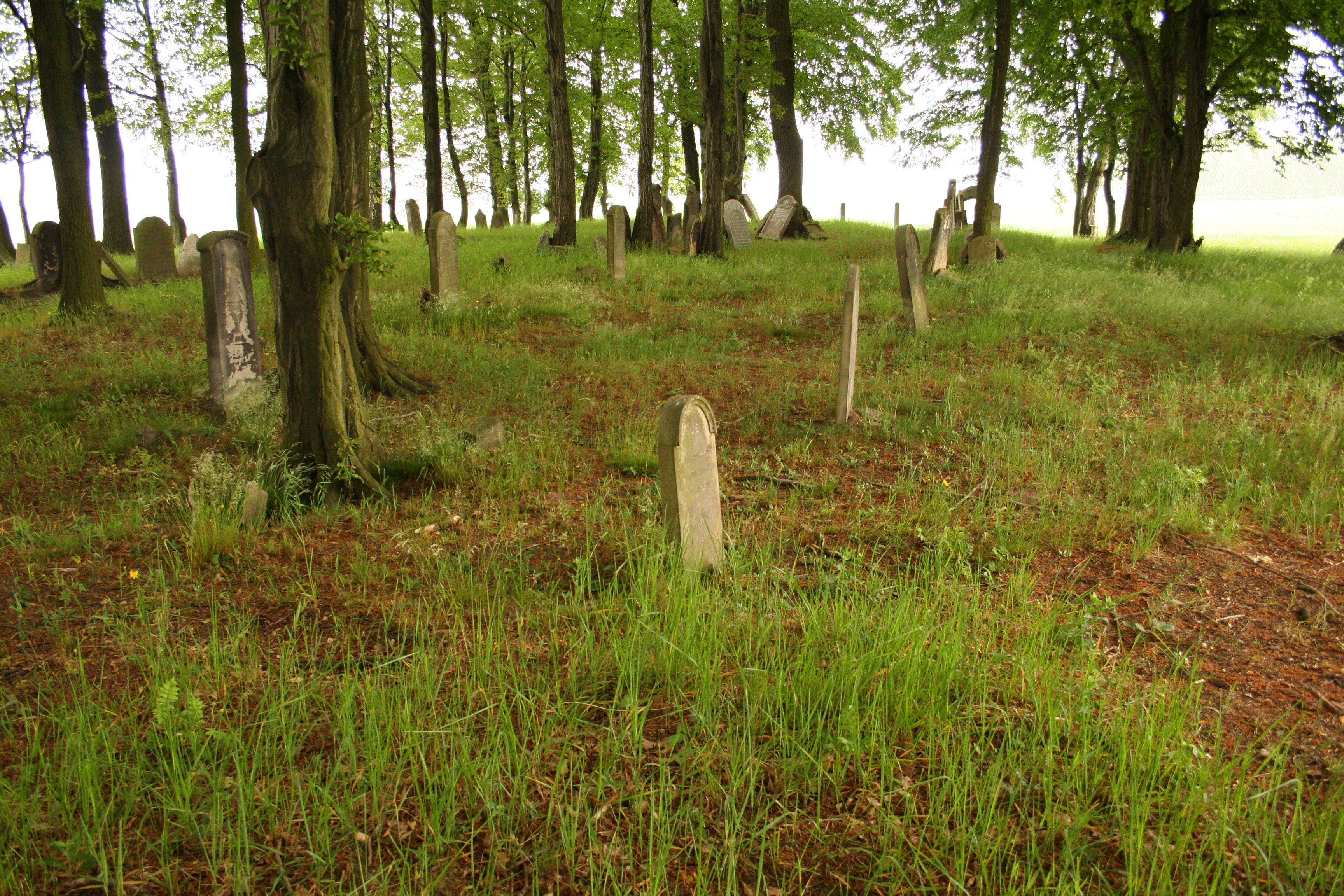 Jewish cemetery in Cieszowa